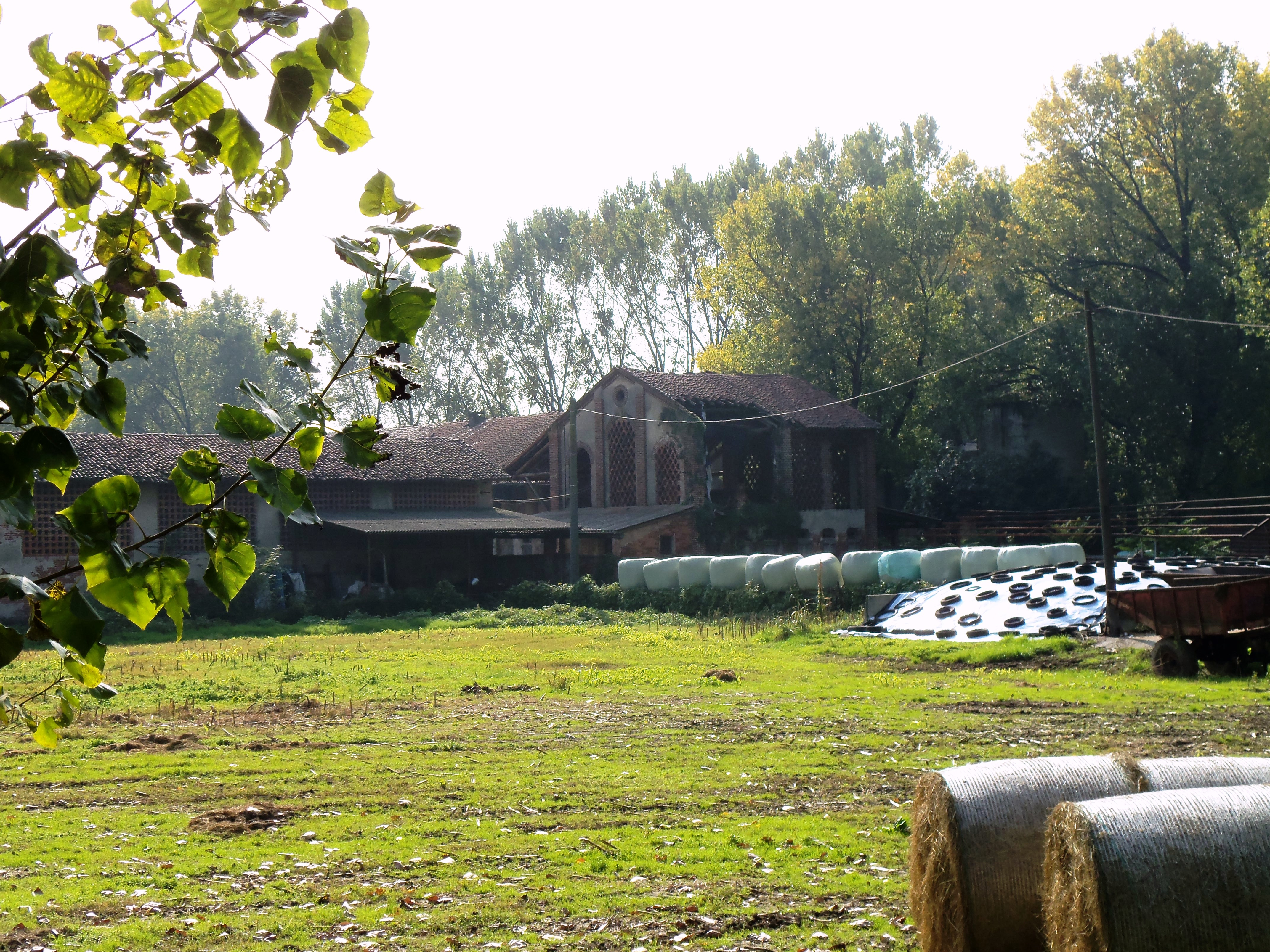 Milano, Campazzo Farmstead, Ticinello park, the north side